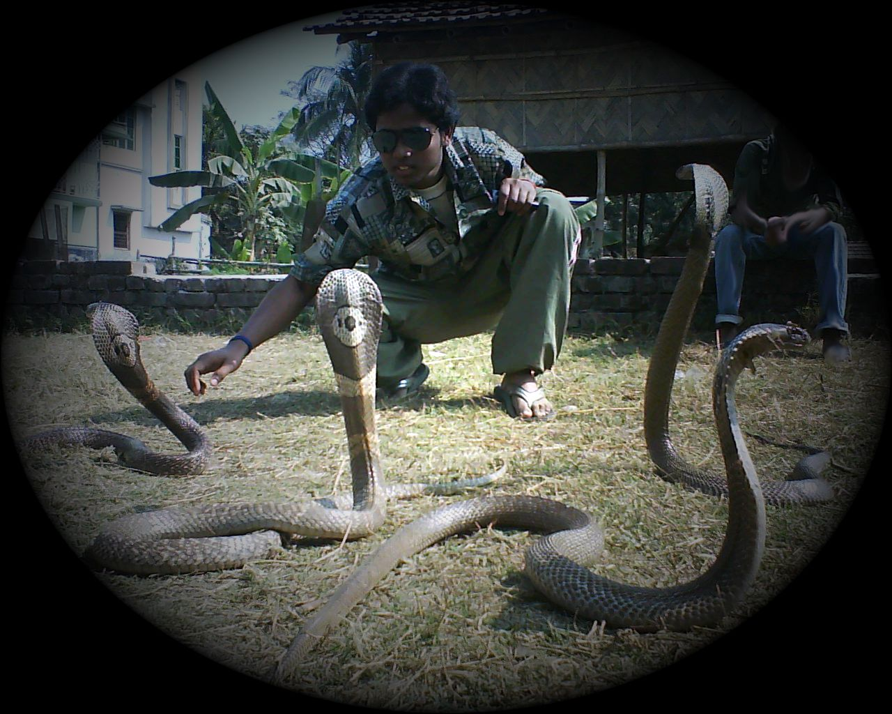 Kaushik Parui with Indian Cobra